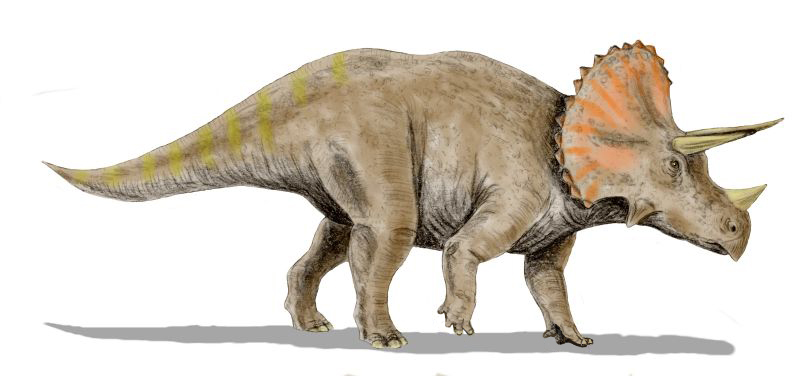 Triceratops horridus, a ceratopsian from the Late Cretaceous of North America, pencil drawing